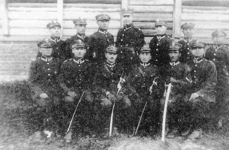 Georgian and Polish liaison officers of the Polish army in Beniaminów, 1925